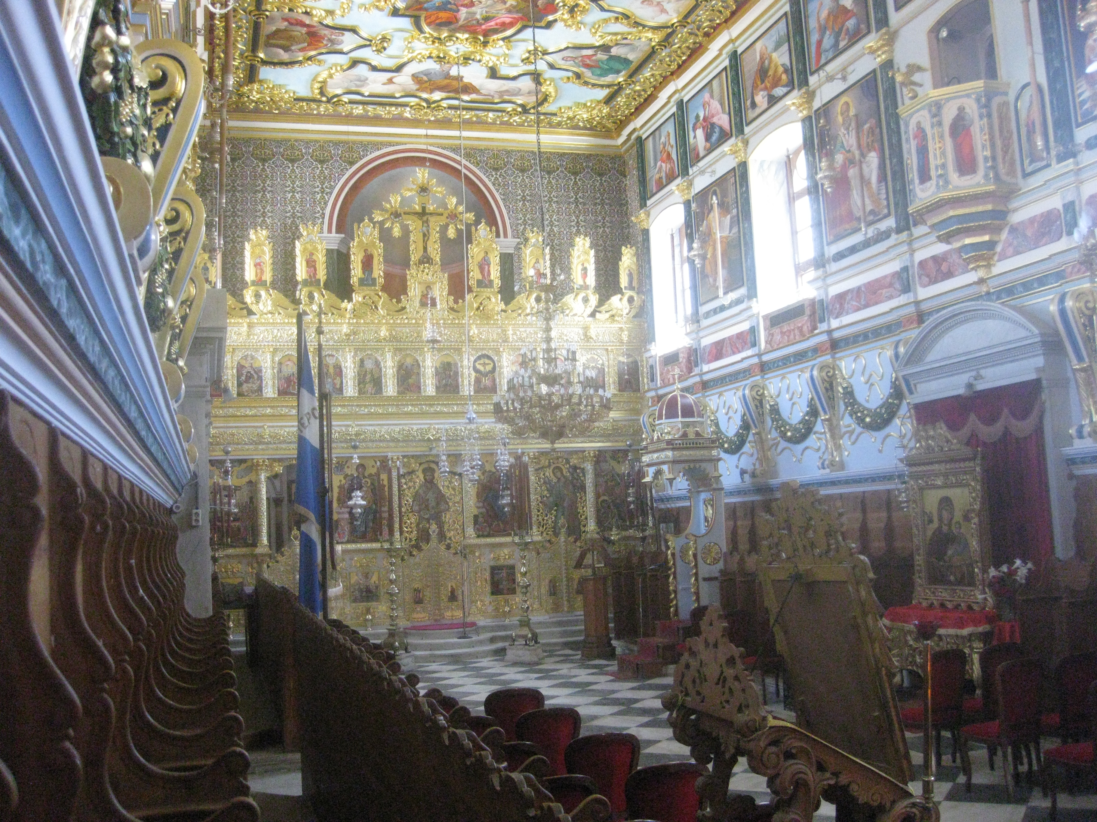 Feneromeni church